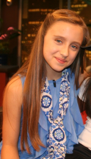 Gaby Borges in Panama